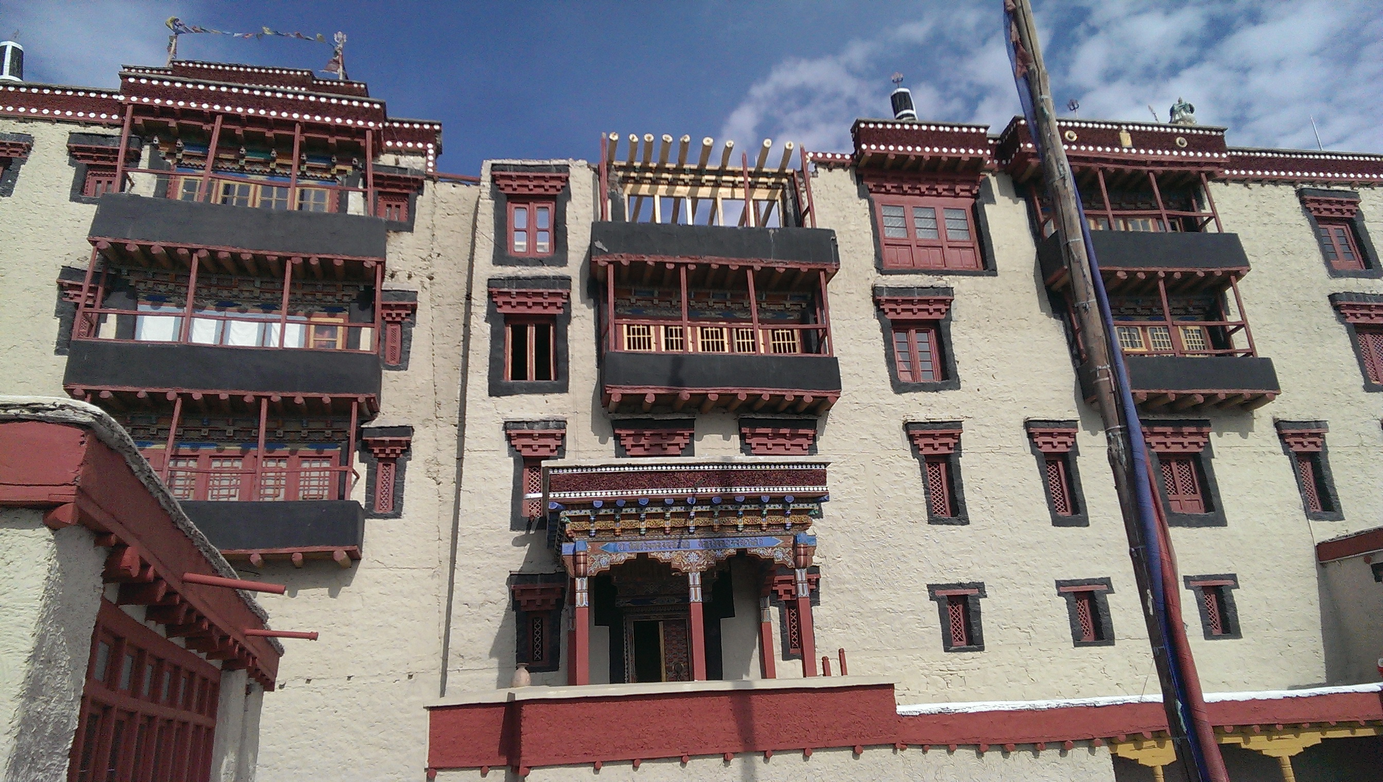 The Stok Royal Palace, residence of the Namgyal dynasty, former rulers of the former Ladakh kingdom, now part of the Indian state of Jammu & Kashmir.